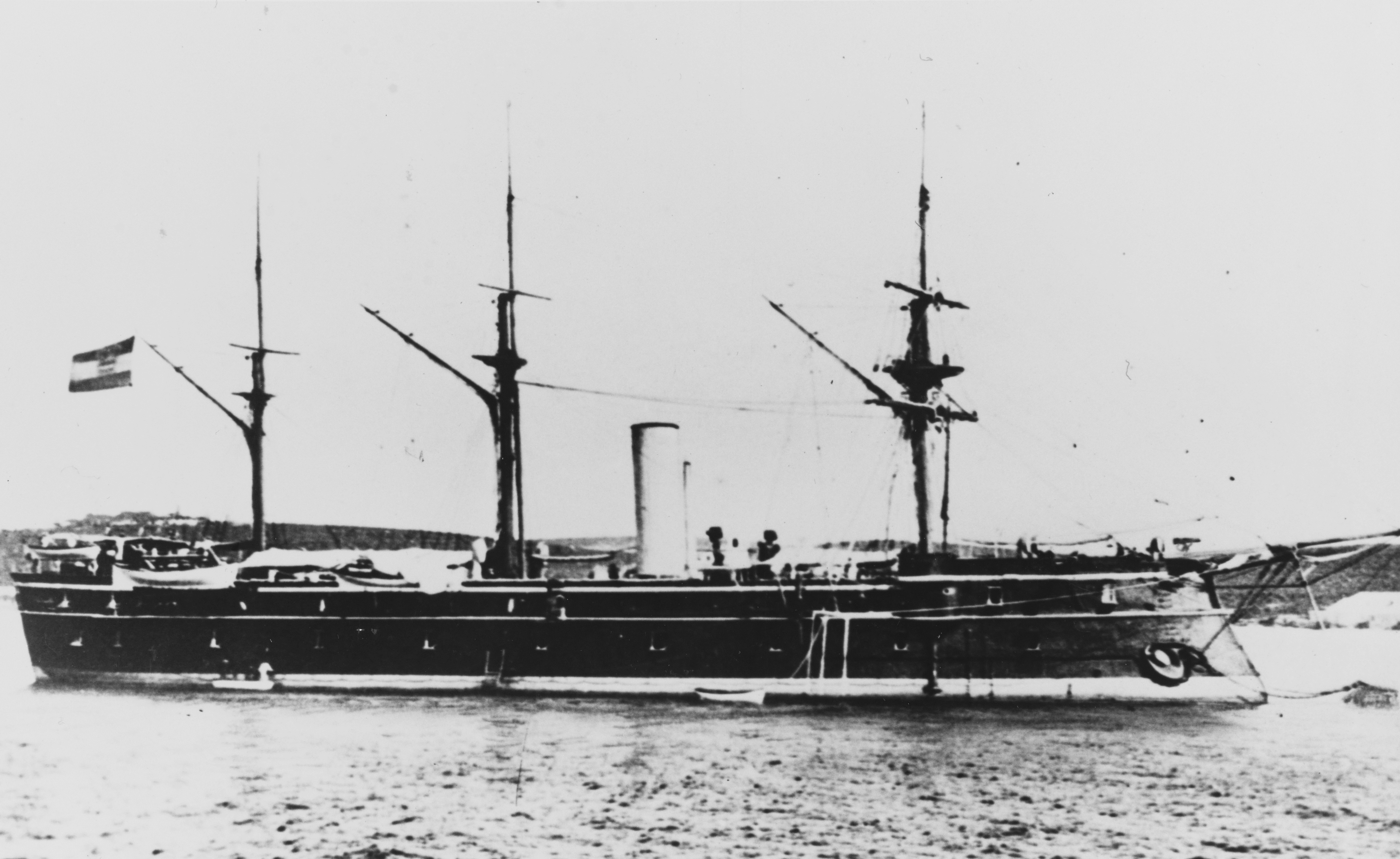 Austro-Hungarian ironclad SMS Erzherzog Ferdinand Max after her 1880 modernization.